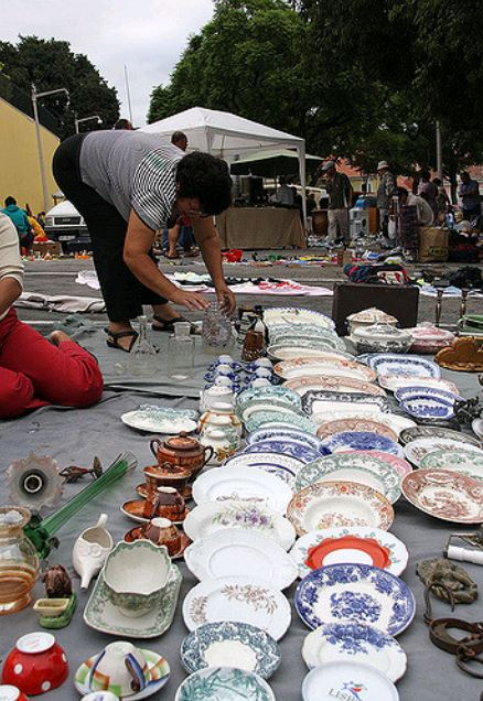 Teller